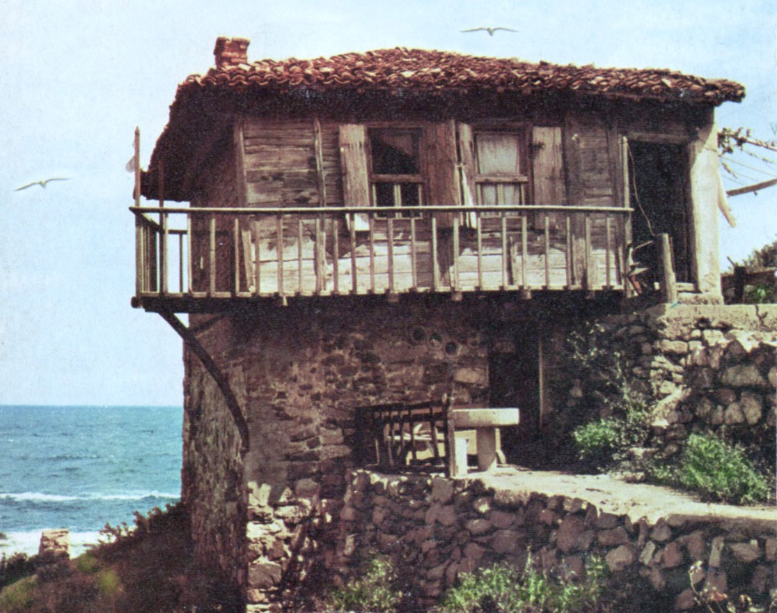 Examples of traditional houses of Dobruja - argentic photos taken 1967 with dad, printed 1995, scanned 2006